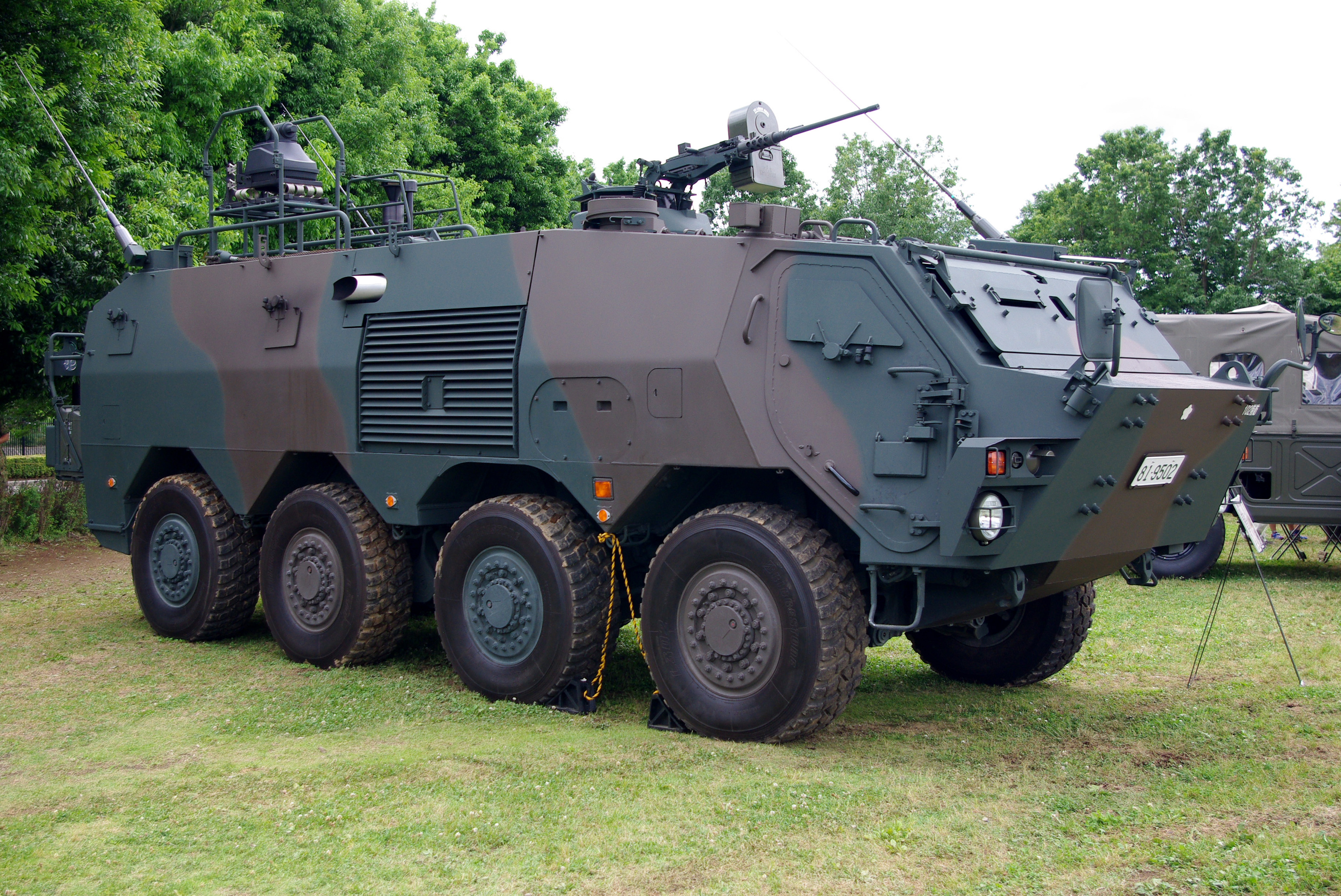 JGSDF NBC reconnaissance vehicle,Central Nuclear Biological Chemical Weapon Defense Unit.Taken by Los688,in Camp Omiya,Japan,at 10-Jun-2012.PD-self 陸上自衛隊 NBC偵察車、中央特殊武器防護隊第102特殊武器防護隊。2012年06月10日、大宮駐屯地で撮影。